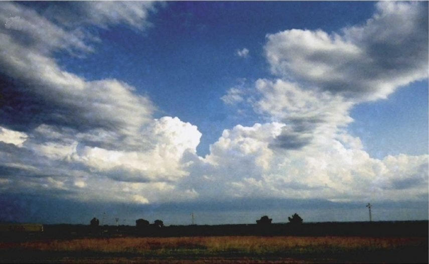 Elevated thunderstorms forming above a slowly moving warm front near Omaha, NE, at about 1830 CDT 25 Jun 1994, looking south.